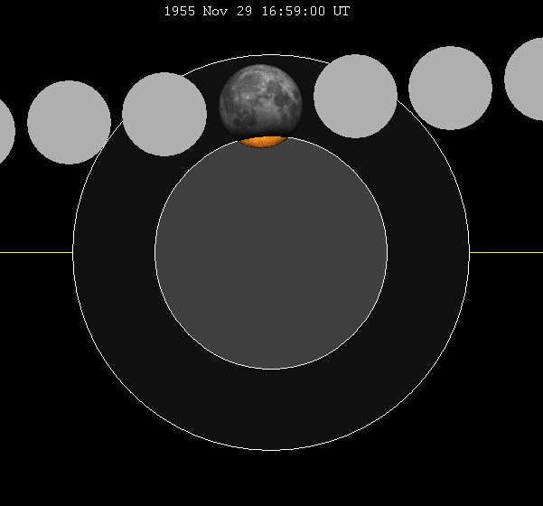 November 1955 lunar eclipse chart of moon's path through the earth's shadow. thumb